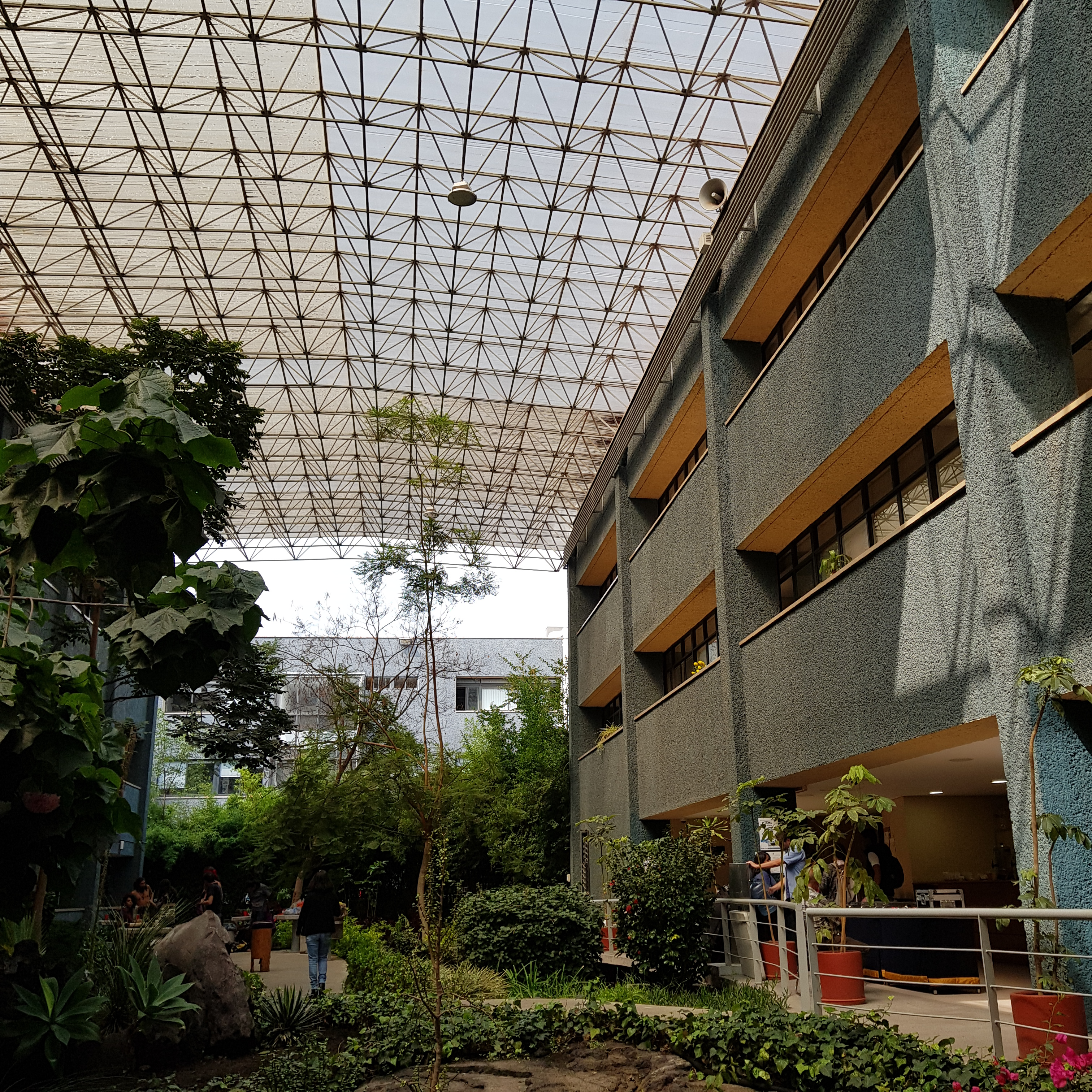 Institute of Economic Research, UNAM